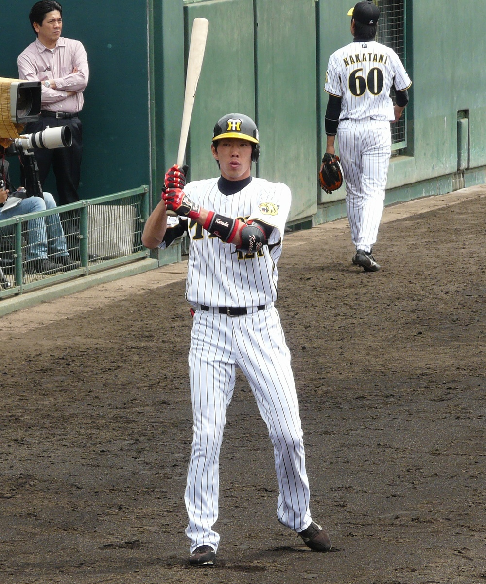 HT-Yusuke-Kuroda20110506